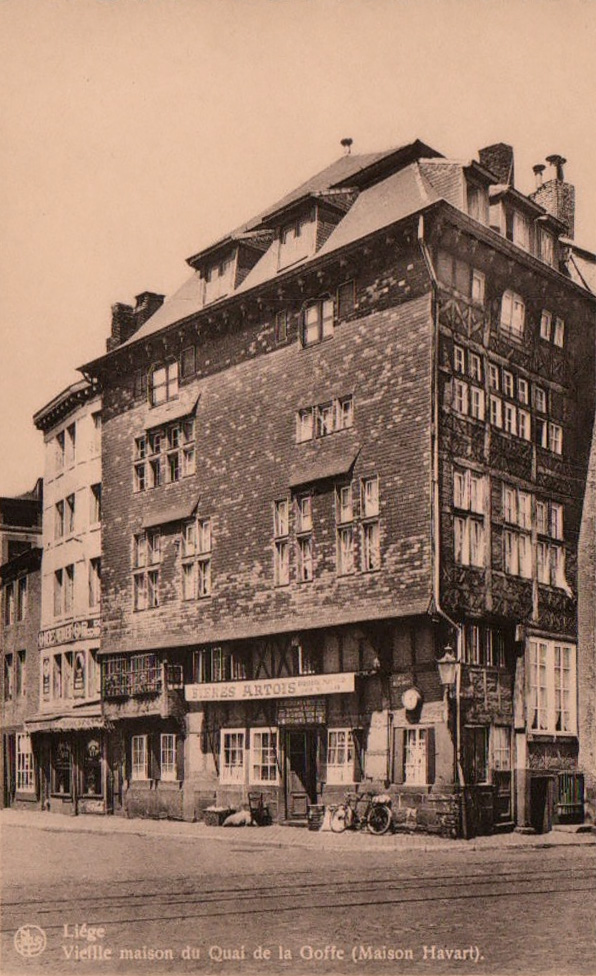 The "Maison Havart" in Liège (Belgium)